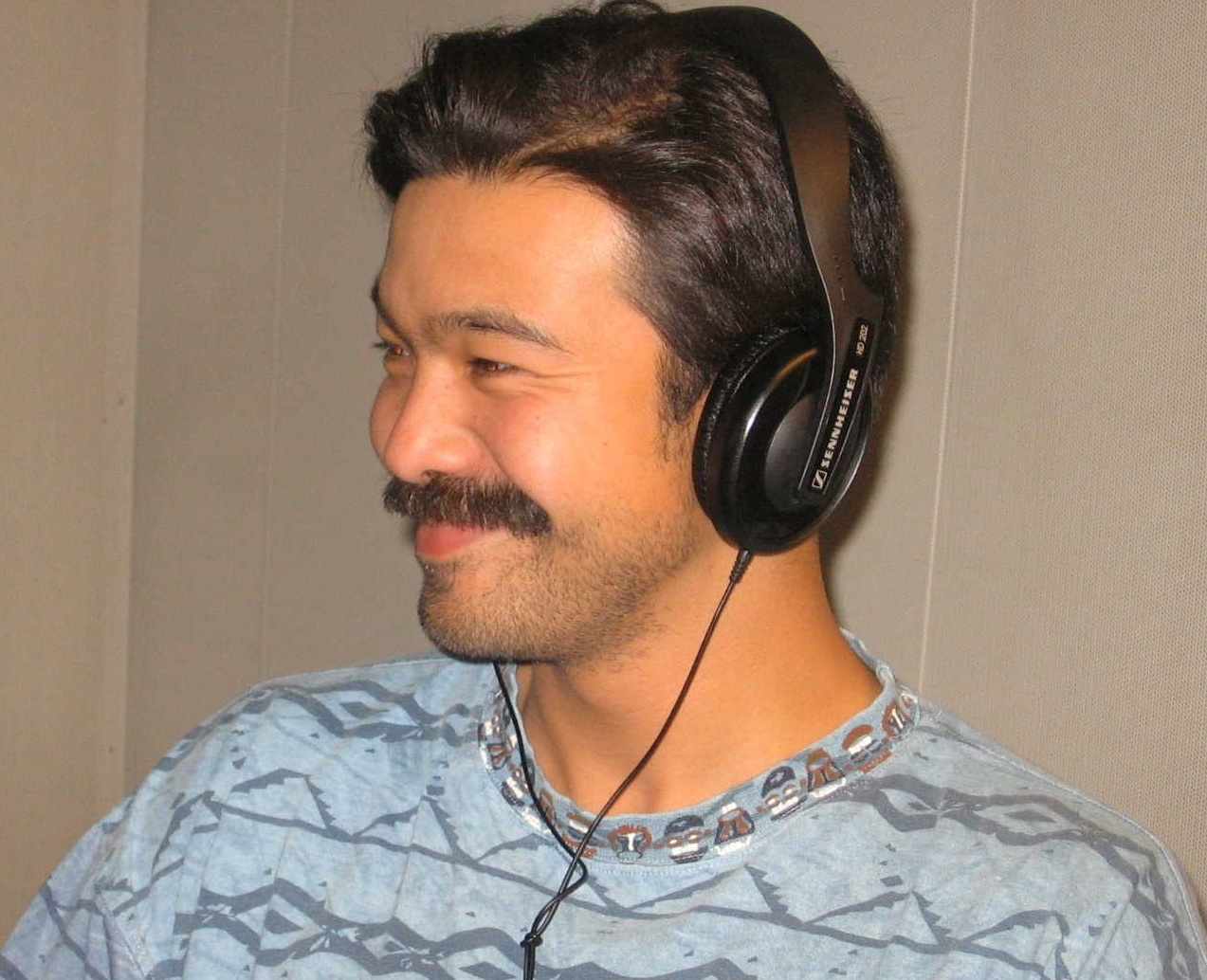 en – Aziz Beishenaliev, an ethnic Kyrgyz film actor, visiting Radio Azattyk during the shooting of a film about Mustafa Choqay. Prague, the Czech Republic. Photo by T. Chorotegin. 14.8.2006.